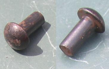 a rivet photo taken by Miaow Miaow in July 2005